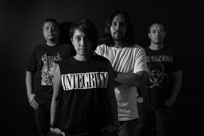 Photo of the Indonesian hardcore band Stepforward.